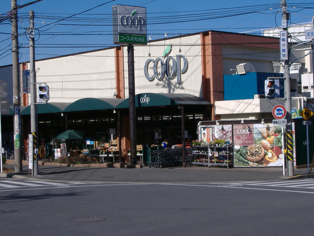 Cooperatives Yokodai-shop (Yokohama,Japan)